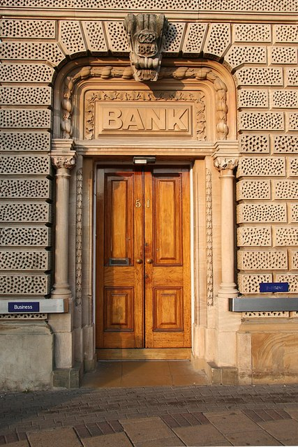 Lloyds Bank: Built in 1864 for the local Garfit and Claypon's Bank when they relocated from High Street, now Lloyds.